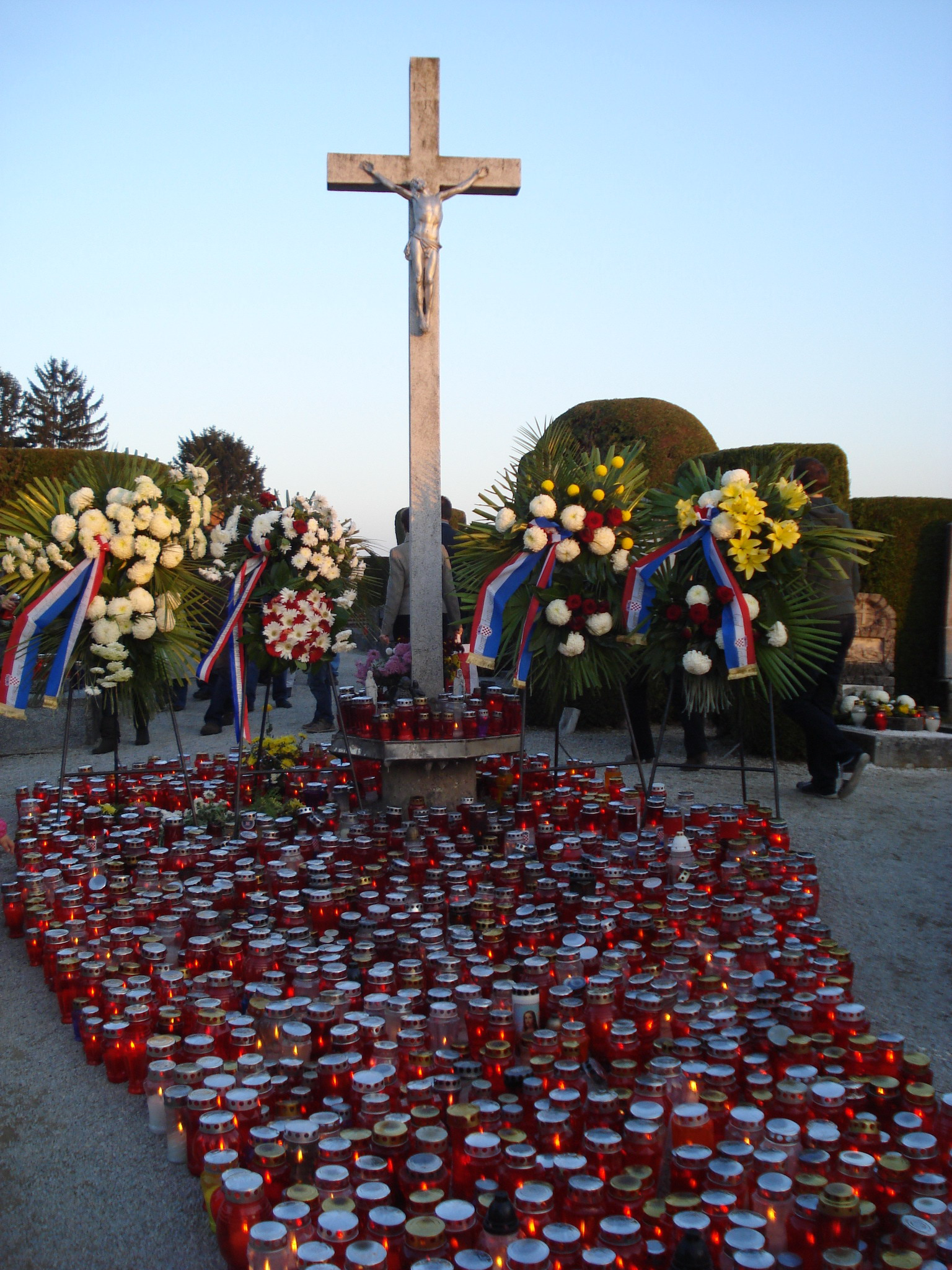 Čakovec Cemetery, Medjimurie County, Croatia - central cross on All Saints' DayHrvatski: Čakovečko groblje, Međimurska županija, Hrvatska - središnji križ na blagdan Svih svetih